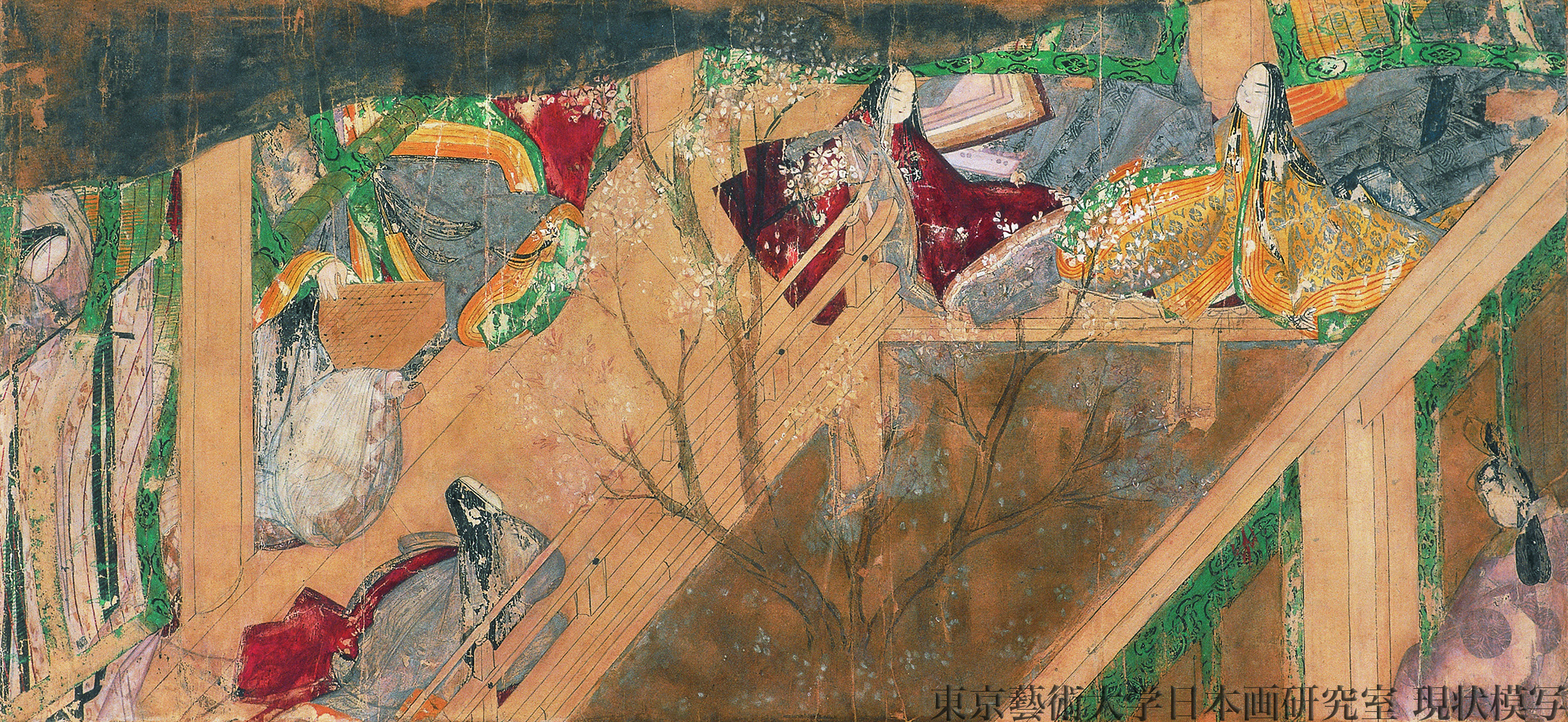 A scene of the Chapter "TAKEKAWA "(Bamboo River) of Illustrated handscroll of Tale of Genji (written by MURASAKI SHIKIBU(11th cent.). The handscroll was made in about ACE1130 and stored in TOKUGAWA Museum, Japan. The handscroll were separated to each sections and mounted to frame for conservation.